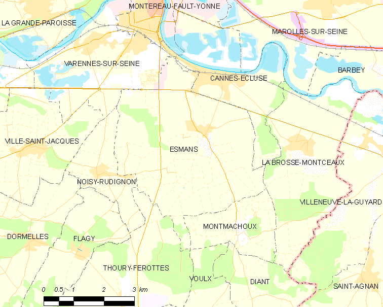 Map of French municipality Esmans